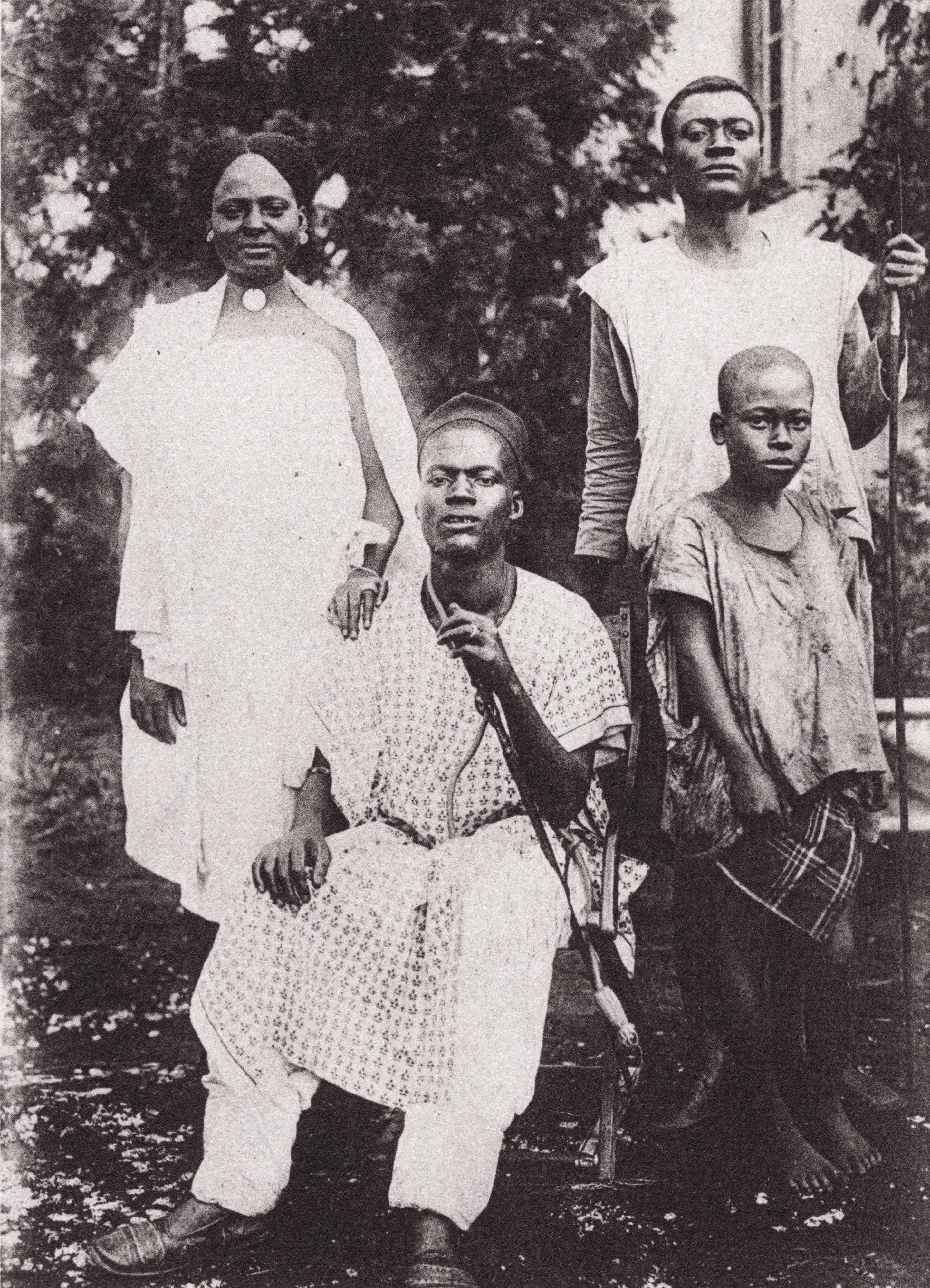 Bamum chied and his family in Cameroon Portrait of a Bamum chief with his family: his wife and his children.; Postcard of the Société des missions évangéliques de Paris (Paris evangelical missionary society). Photographer: Wuhrmann, Anna Filename: IMP-DEFAP_CMCFGB-CP023_2 Coverage date: 1910/1930 Subject (unesco): Indigenous populations; Family Part of collection: International Mission Photography Archive, ca.1860-ca.1960 Geographic subject (region): Bamum (Cameroon) Type: images Part of subcollection: Photographs of the Défap - Service protestant de mission, Paris, ca. 1880-1971 Part of repository: Défap - Service protestant de mission Repository name: Défap - Service protestant de mission (Département évangélique français d’action apostolique) Format: photographs Archival file: impa_Volume367/IMP-DEFAP_CMCFGB-CP023_2.tiff Previous format (aacr2): photographic postcards, 9x14cm Repository address: 102 boulevard Arago - 75014 Paris, France Geographic subject (country): Cameroon Rights: Défap - Service protestant de mission (Département évangélique français d’action apostolique) Part of series: Fonds photographique Bamoun / Société des missions évangéliques de Paris Repository email: Date created: 1910/1930 Publisher (of the digital version): University of Southern California. Libraries Legacy record ID: impa-m85733 Access conditions: File: SMEP/CM.C.FGB-CP023